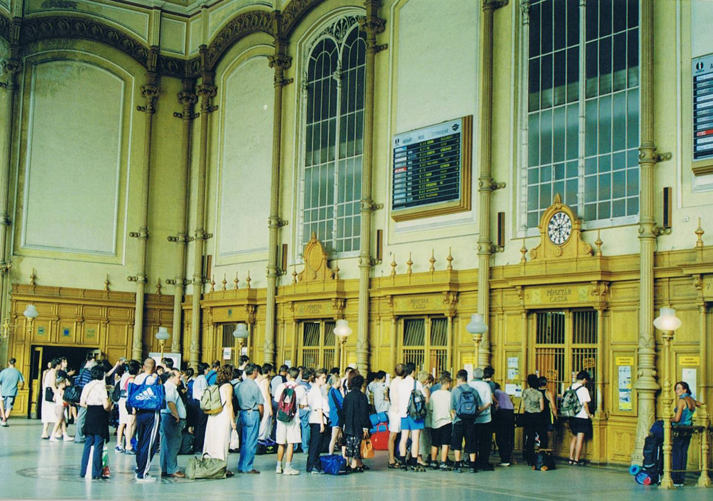 Budapest, Hungary. A train station.